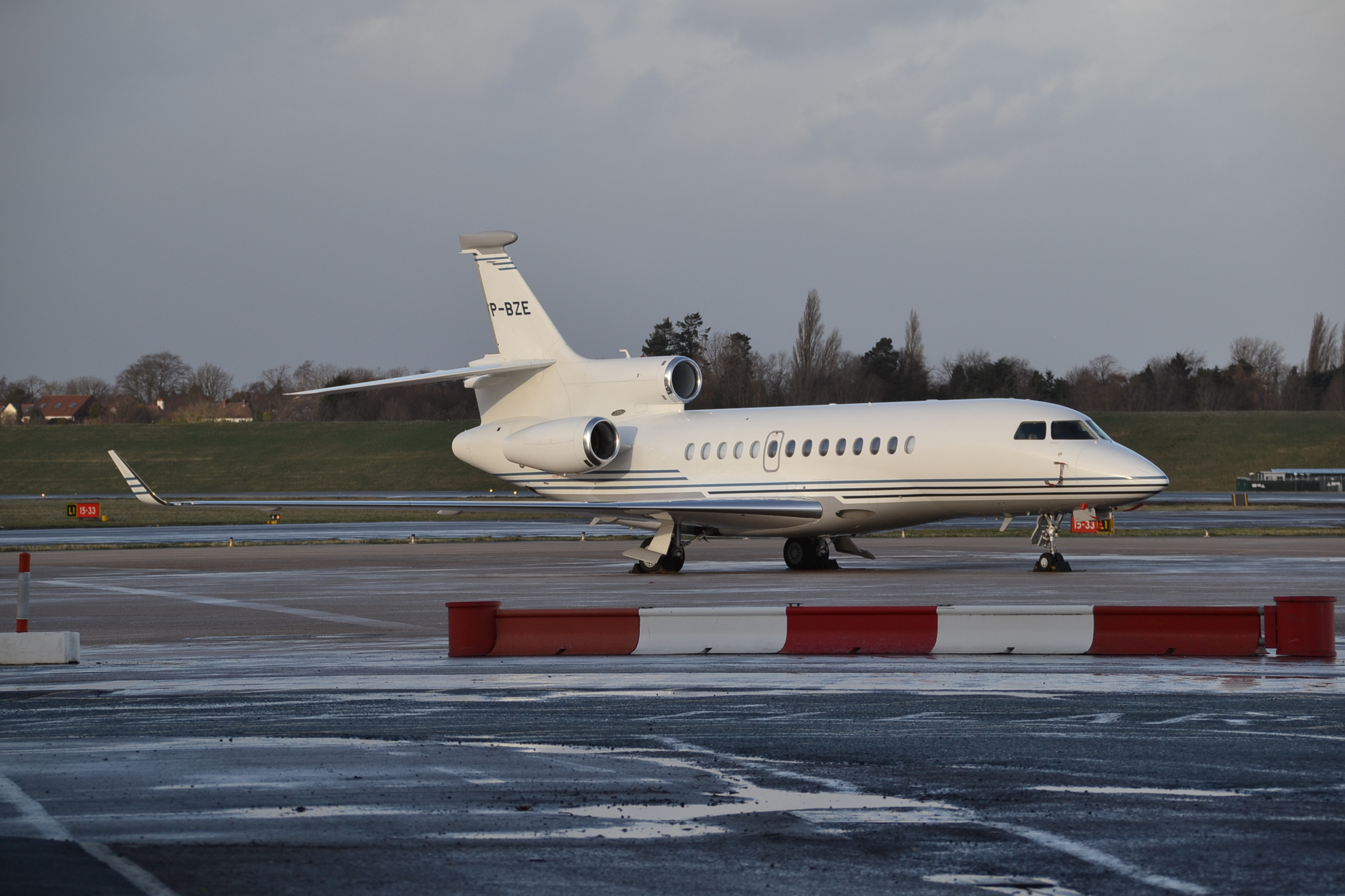 Dassault Falcon 7X at Birmingham-BHX,12/02/14.